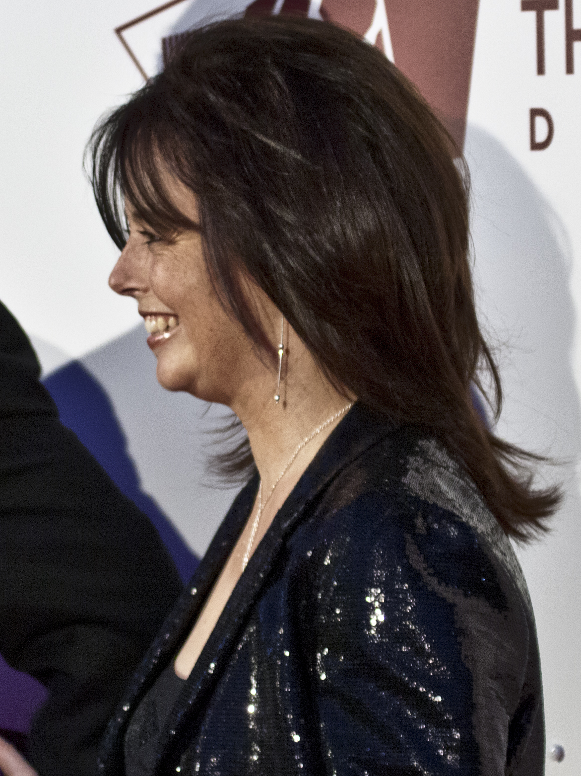 Melanie Verwoerd at the opening of the Grand Canal Theatre in March 2010.